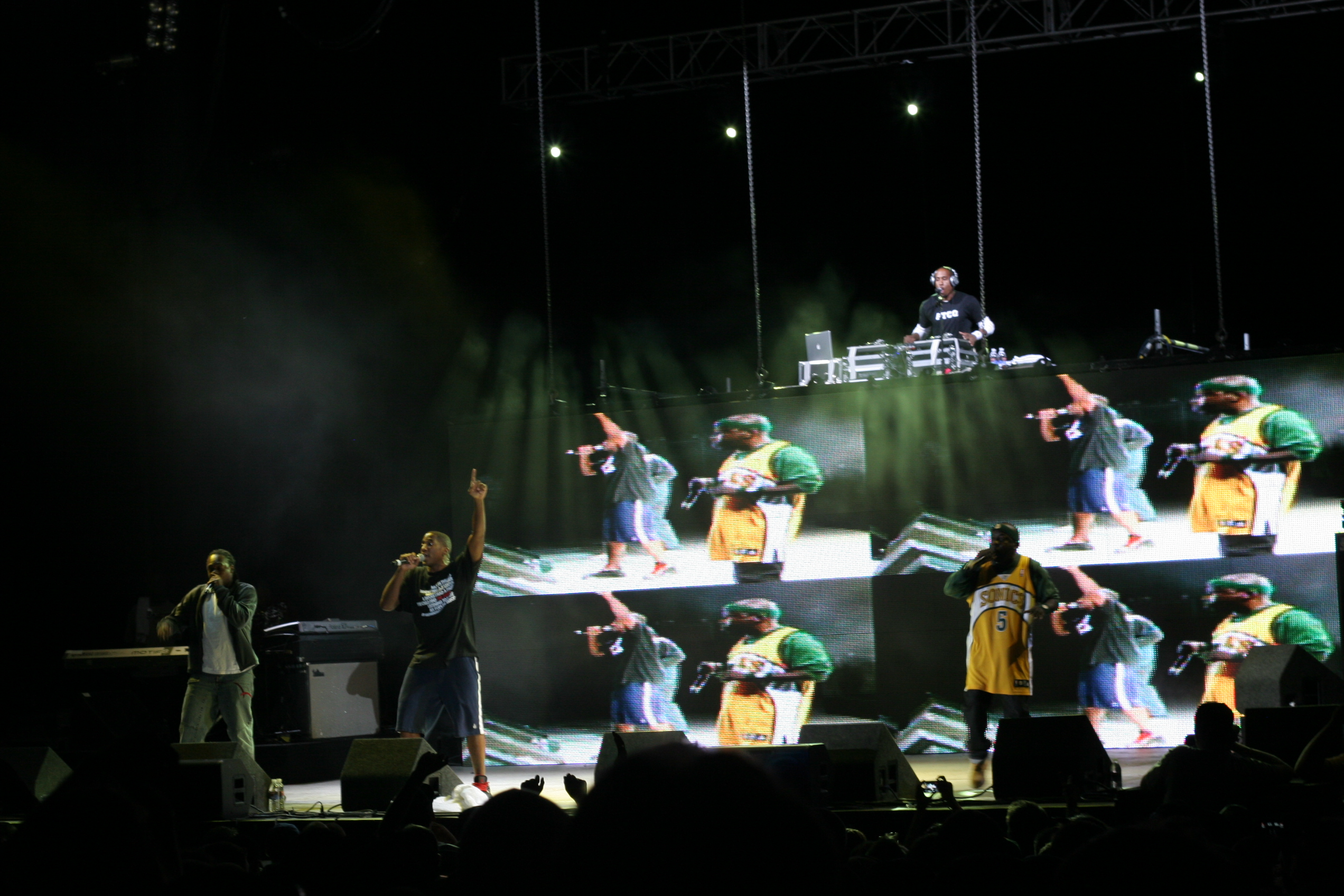 Members of the hip hop group A Tribe Called Quest performing a concert in 2008 in front of a large video monitor